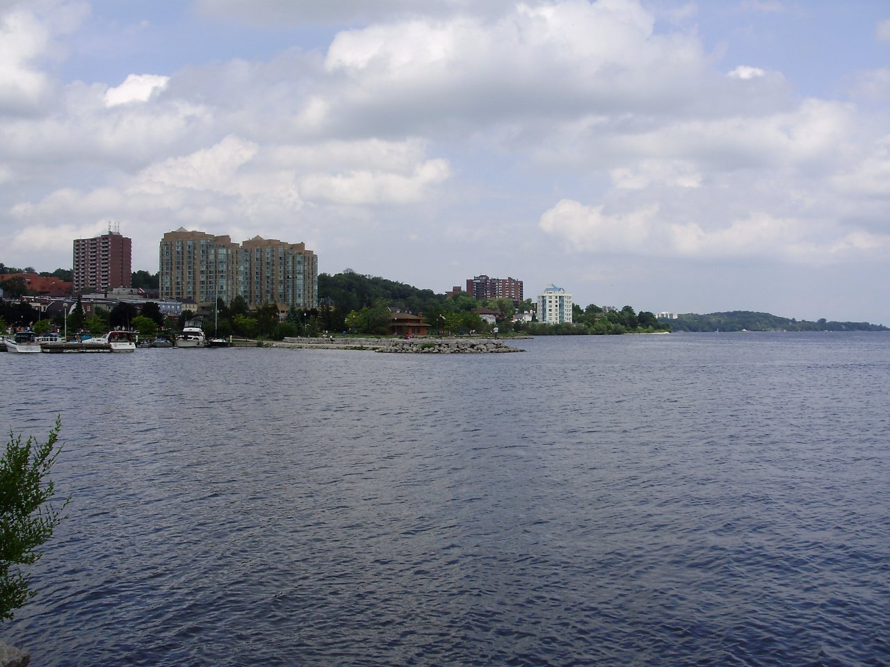 Looking northeast across the waters of Kempenfelt Bay from the Barrie Marina in Barrie, Ontario, Canada. The buildings visible on the shoreline represent the eastern extent of downtown Barrie.